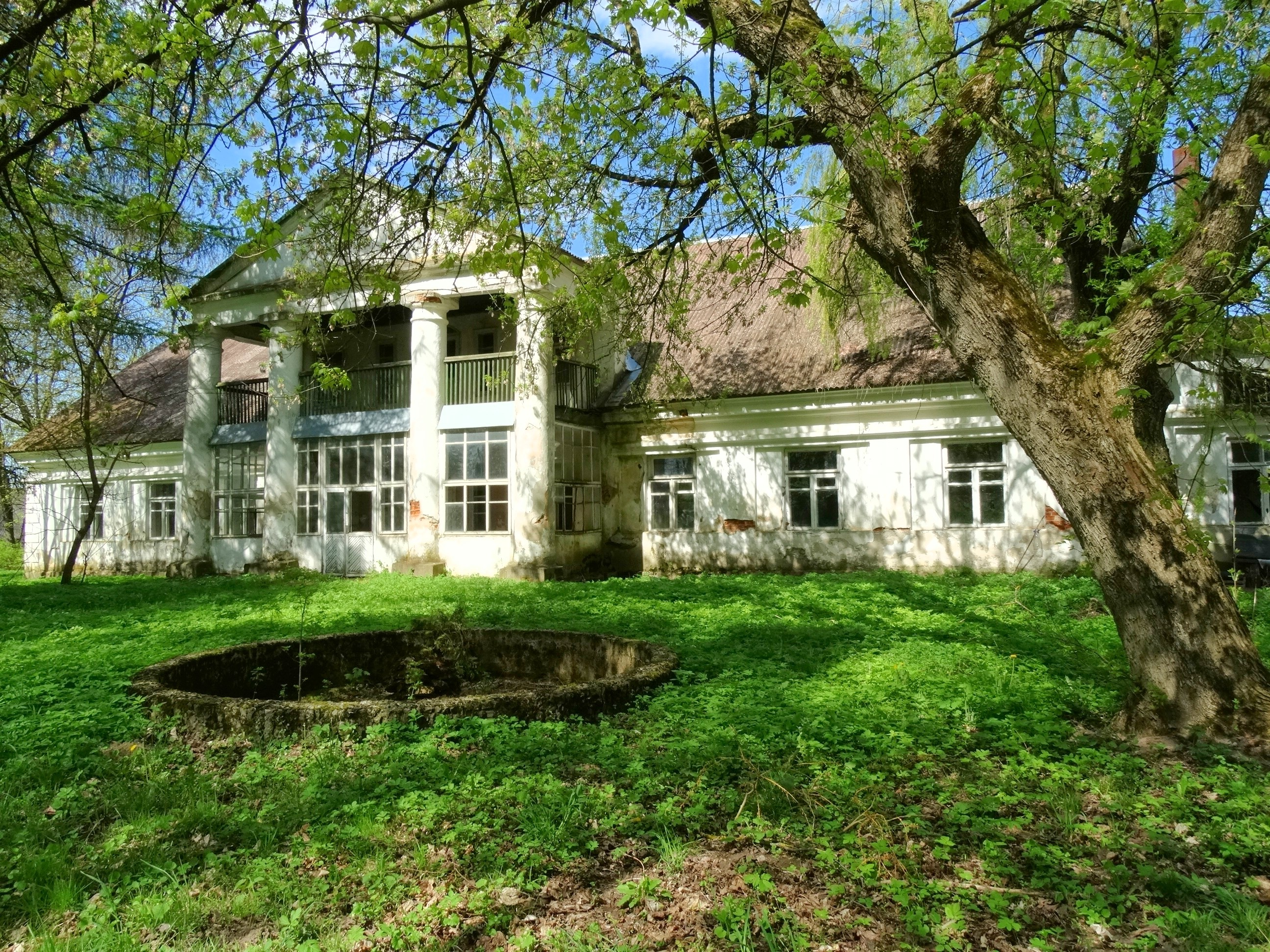 Manor, Gornostajiškės, Šalčininkai District, Lithuania